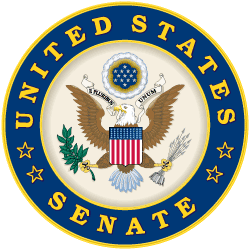 Great Seal of the United States with a "United States Senate" inscription. This is not the official Seal of the United States Senate, but is commonly used as an alternate due to use restrictions on the official seal.